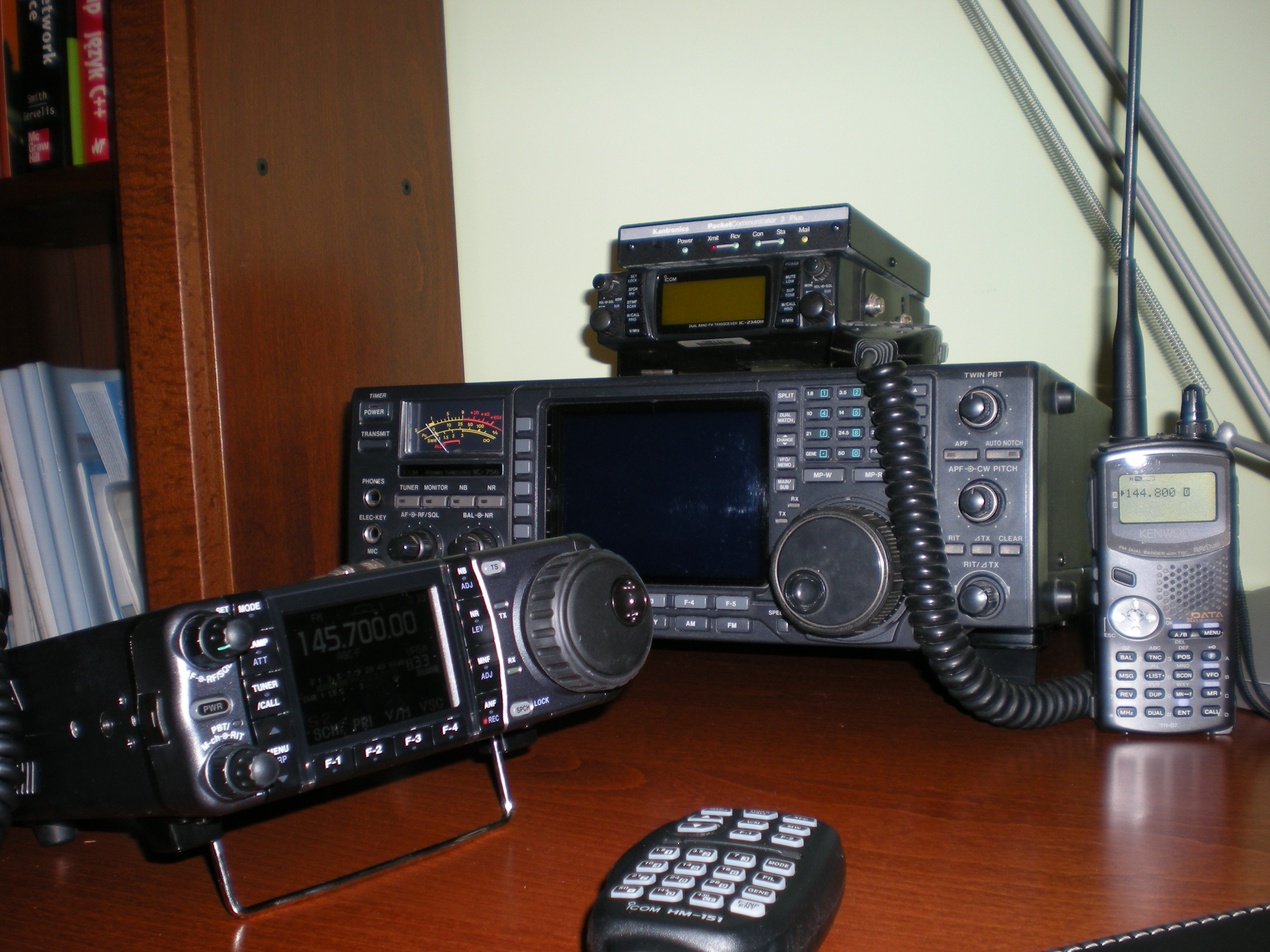 Typical hamradio shack, containing following equipment: ICOM IC-7000 (left), Kenwood TH-D7 (right), ICOM IC-756 (center), ICOM IC-2340H (center, above), Kantronics KPC3+ (center, above)